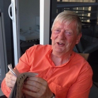 Portrait photo of Professor Doug Clelland taken in 2019